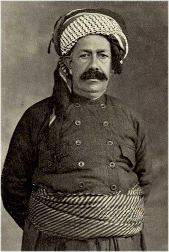 Sheikh Mahmoud - Kurdistan's King (1918-1922)